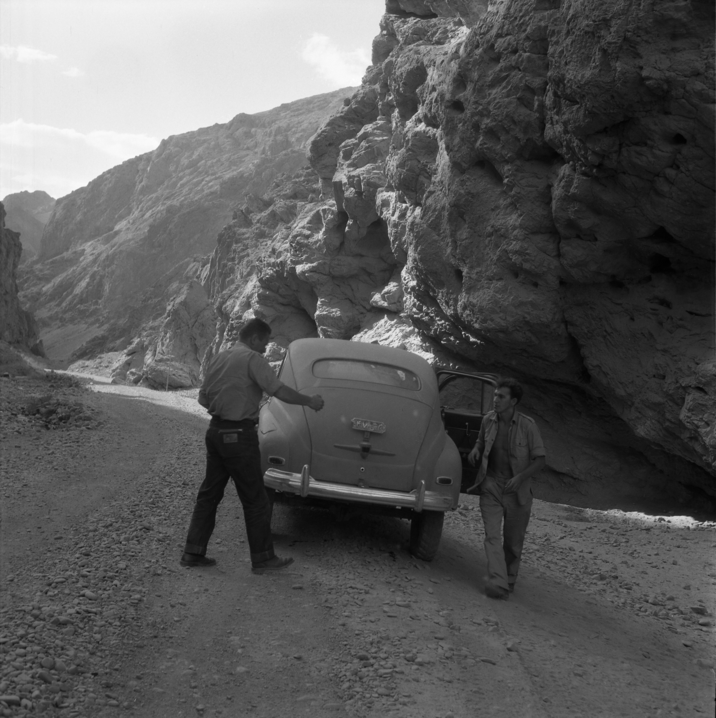 Road to Shibar pass, Hindu Kush, Afghanistan